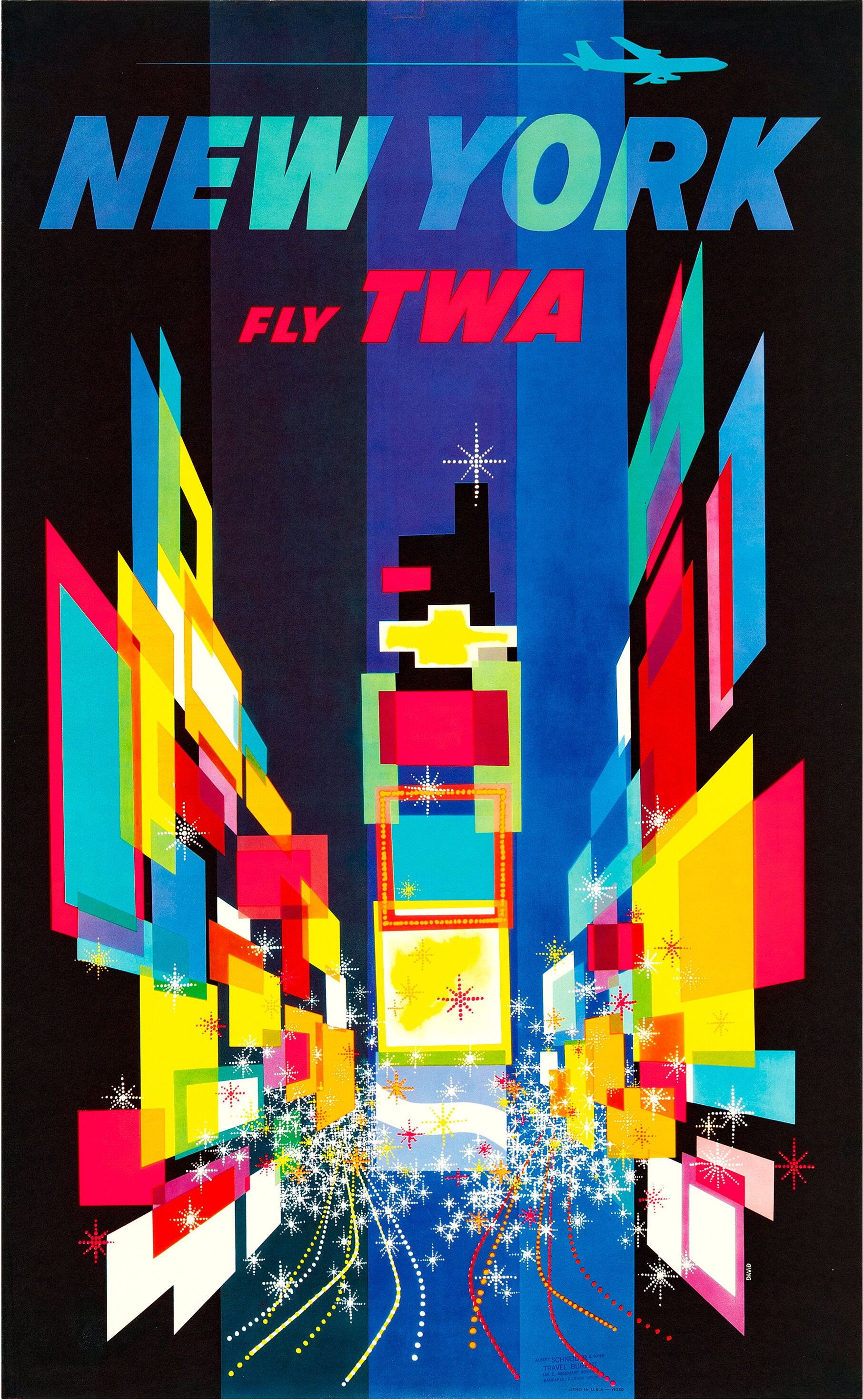 Poster shows an abstract interpretation of Times Square in New York with a TWA jet and jetstream at the top of the image.